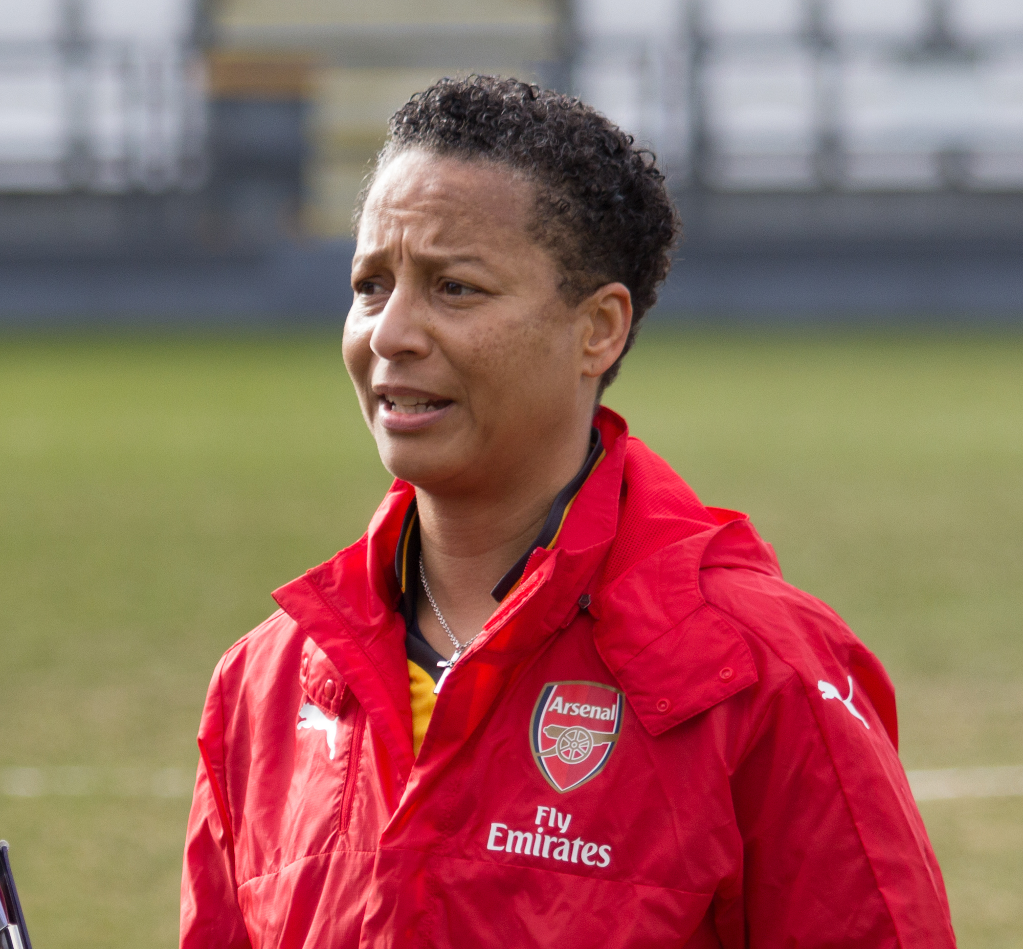 Arsenal LFC (Red) v Kelly Smith All-Stars XI (Yellow), 19 February 2017 – pre-match